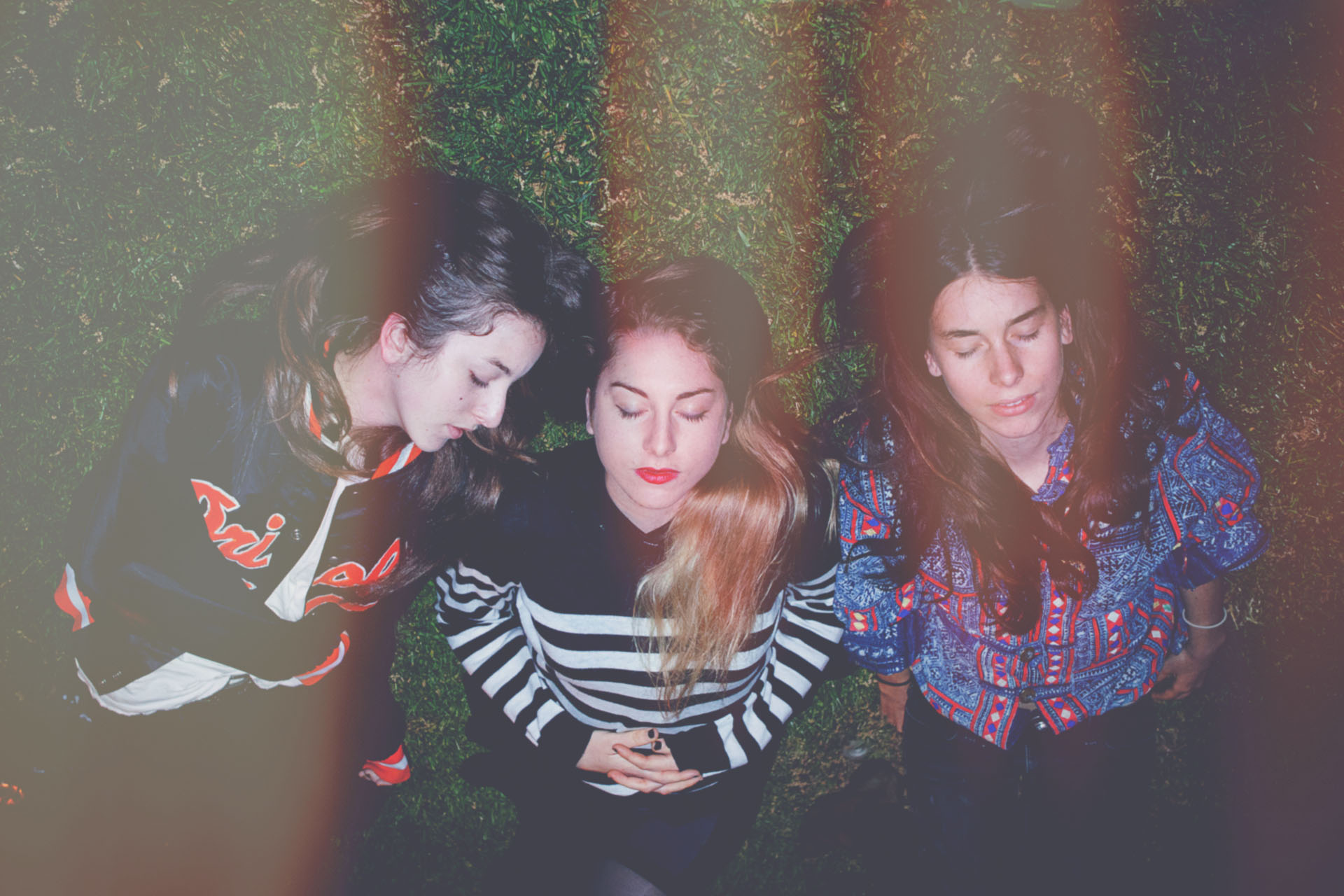 Haim (a band) in Los Angeles.